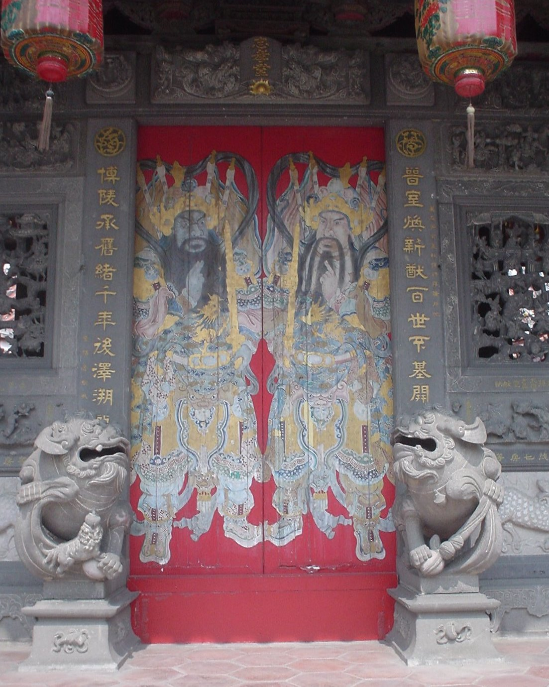 This is a painting on the inside of the door looking from the inner courtyard exit to the outer courtyard at the Lin Family Temple in Taichung, Taiwan. Photo taken on October 12, 2006.